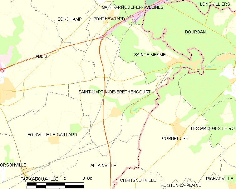 Map of French municipality Saint-Martin-de-Bréthencourt